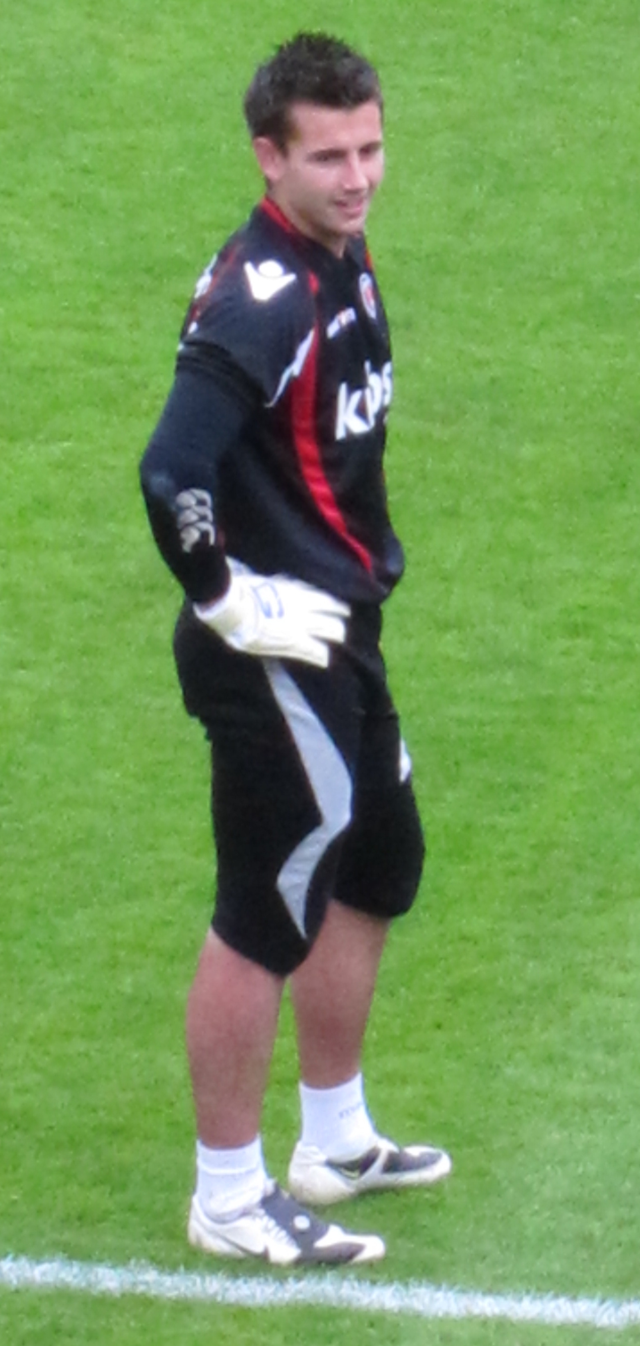 Ross Worner warming up for the Brentford v Charlton game (2010/2011) season.